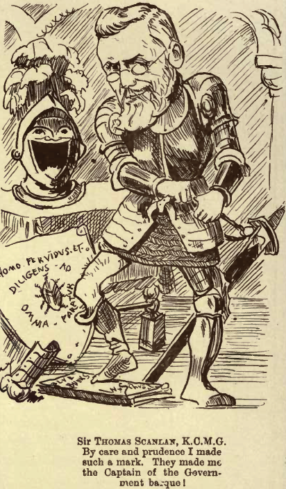 Thomas Charles Scanlen - as Prime Minister of the Cape Colony. Caricature from the Lantern. 1881. The text is a rewording of the lyrics of the song "When I was a Lad" from Gilbert and Sullivans Operetta "HMS Pinafore"